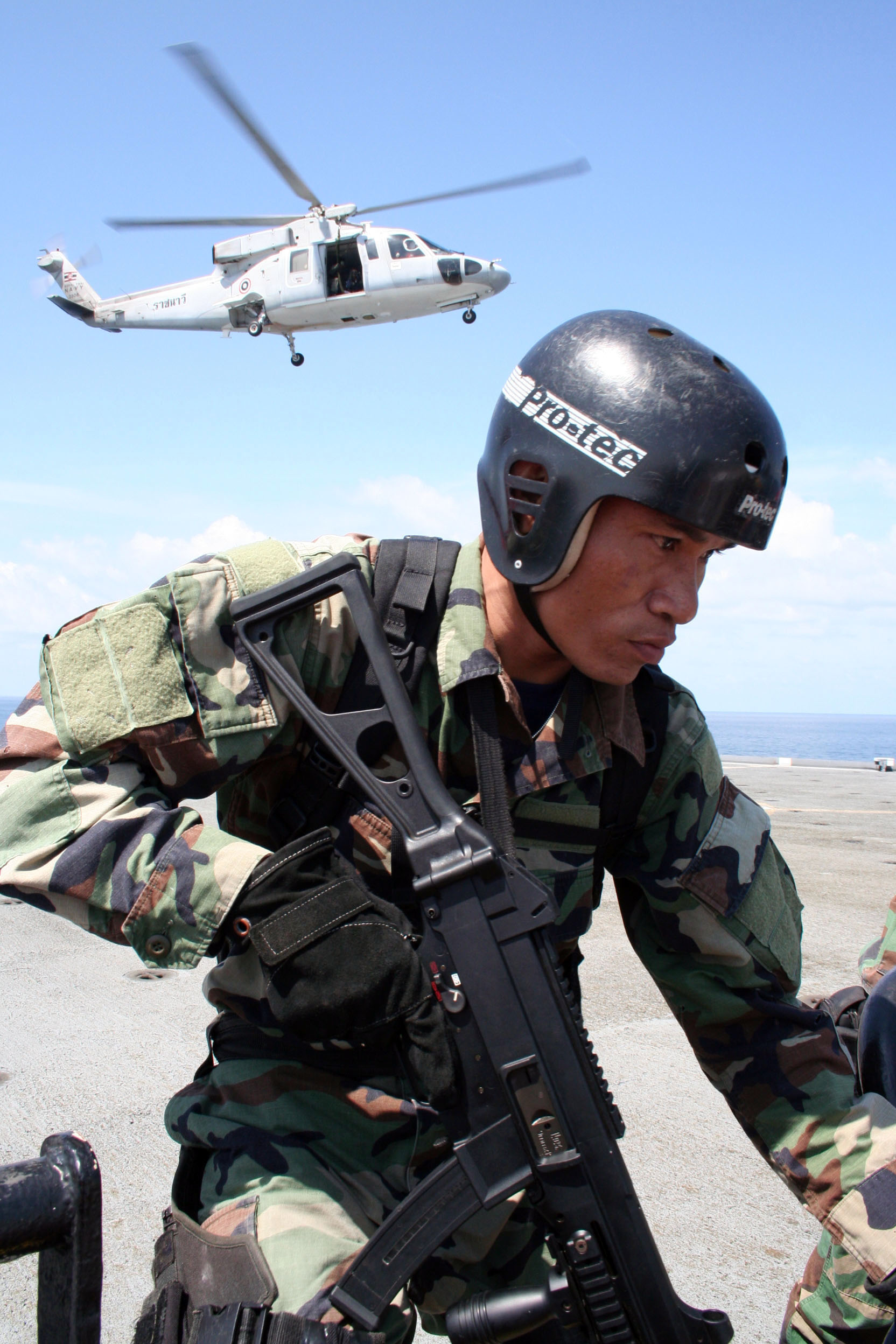 PACIFIC OCEAN (Aug. 18, 2008) A Royal Thai Navy SEAL heads toward the bridge of the Military Sealift Command Marine Corps container roll-on/roll-off ship USNS Cpl. Louis J. Hauge, Jr. (T-AK 3011) after fast-roping onto the ship's flight deck. A six-person Thai special forces team boarded the ship during the annual Southeast Asia Cooperation Against Terrorism (SEACAT) exercises. SEACAT is a week-long, at-sea exercise designed to highlight information sharing and multinational coordination within a scenario that provides participating navies with practical maritime interception training.(U.S. Navy photo by Edward Baxter/Released)